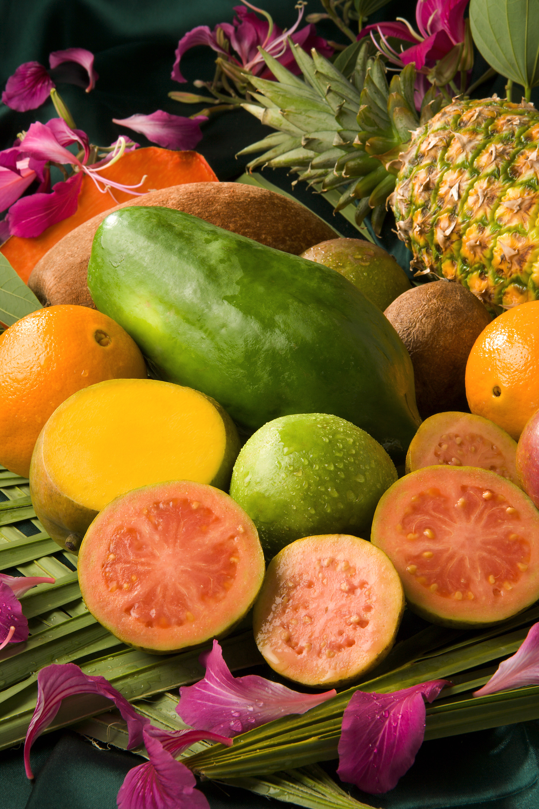 Gorgeous, tasty, and nutritious tropical fruit, including mamey sapote, mango, orange, papaya, pineapple, and sapodilla.